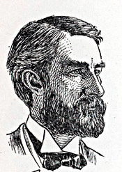 John Franklin Rixey, US Representative from Virginia